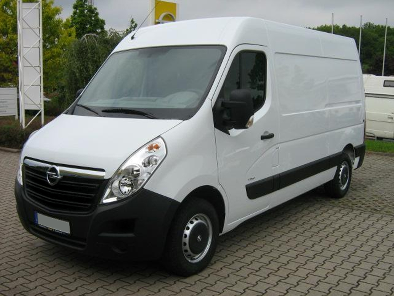 Late 2010 Opel Movano